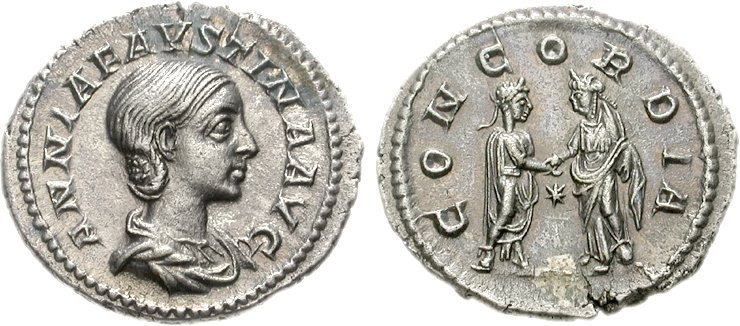 Annia Faustina. Augusta, AD 221. AR Denarius (3.23 g, 6h). Rome mint. Struck under Elagabalus. ANNIA FAVSTINA AVG, bare-headed and draped bust right; CONCORDIA, Elagabalus, laureate and togate, and Annia Faustina, diademed and draped, standing vis-à-vis, clasping right hands;star between them. RIC IV 232 (Elagabalus); Thirion 490; RSC 1; BMCRE p. 570, † (Elagabalus).